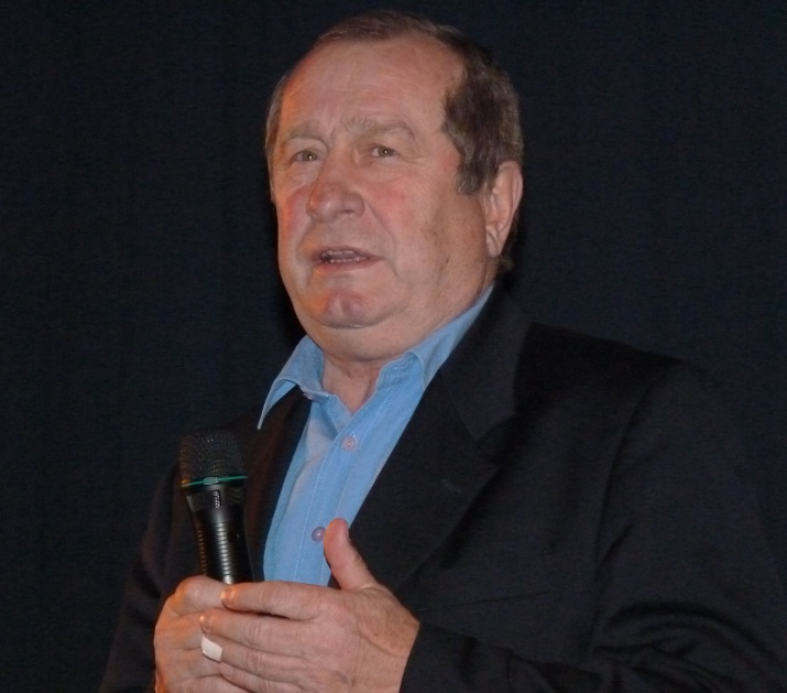 Former Czech ice hockey player and later coach. In Velké Meziříčí, at the announcement of the poll Athlete of the Year 2011.